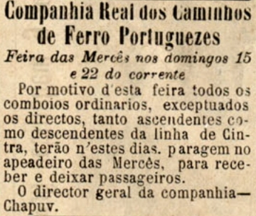 Public warning of Companhia Real dos Caminhos de Ferro Portugueses (Royal Company of Portuguese Railways), about a change on the schedules of the Mercês Halt, due to a fair in that town. This image was published on the Diario Illustrado newspaper No. 9551, of 13th October 1899, and scanned by the Biblioteca Nacional de Portugal.